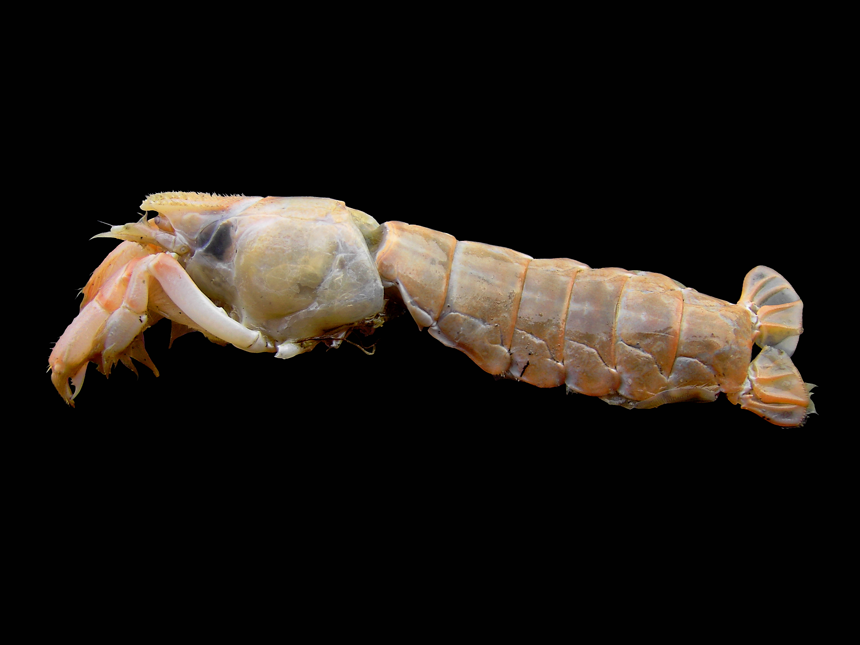 Mud shrimp from the Belgian coastal waters.